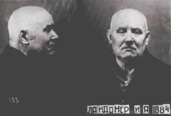 Johan Laidoner (1884-1953) – Estonian military, Commander-in-chief of the Estonian Army in 1918–1920 during Estonian War of Independence, and later also during 1924–1925, and 1934–1940. In 1940 arrested by Soviet NKVD, imprisoned, died in Soviet prison in Vladimir